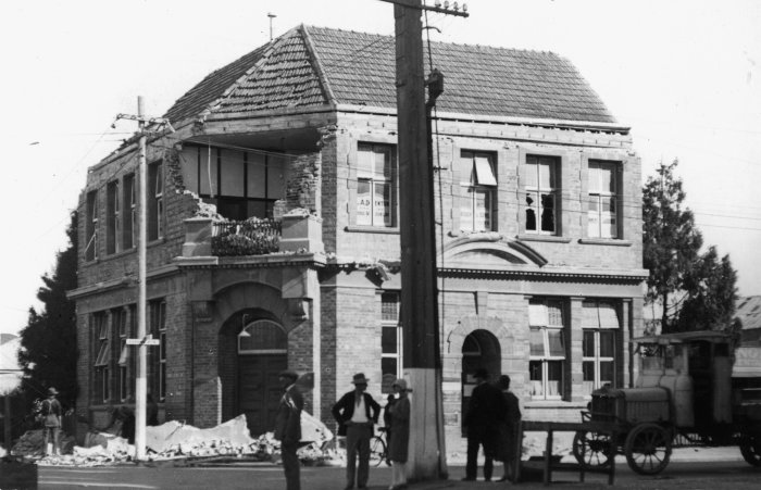 Hawkes Bay Tribune building in Hastings, New Zealand, damaged by the earthquake of 1931